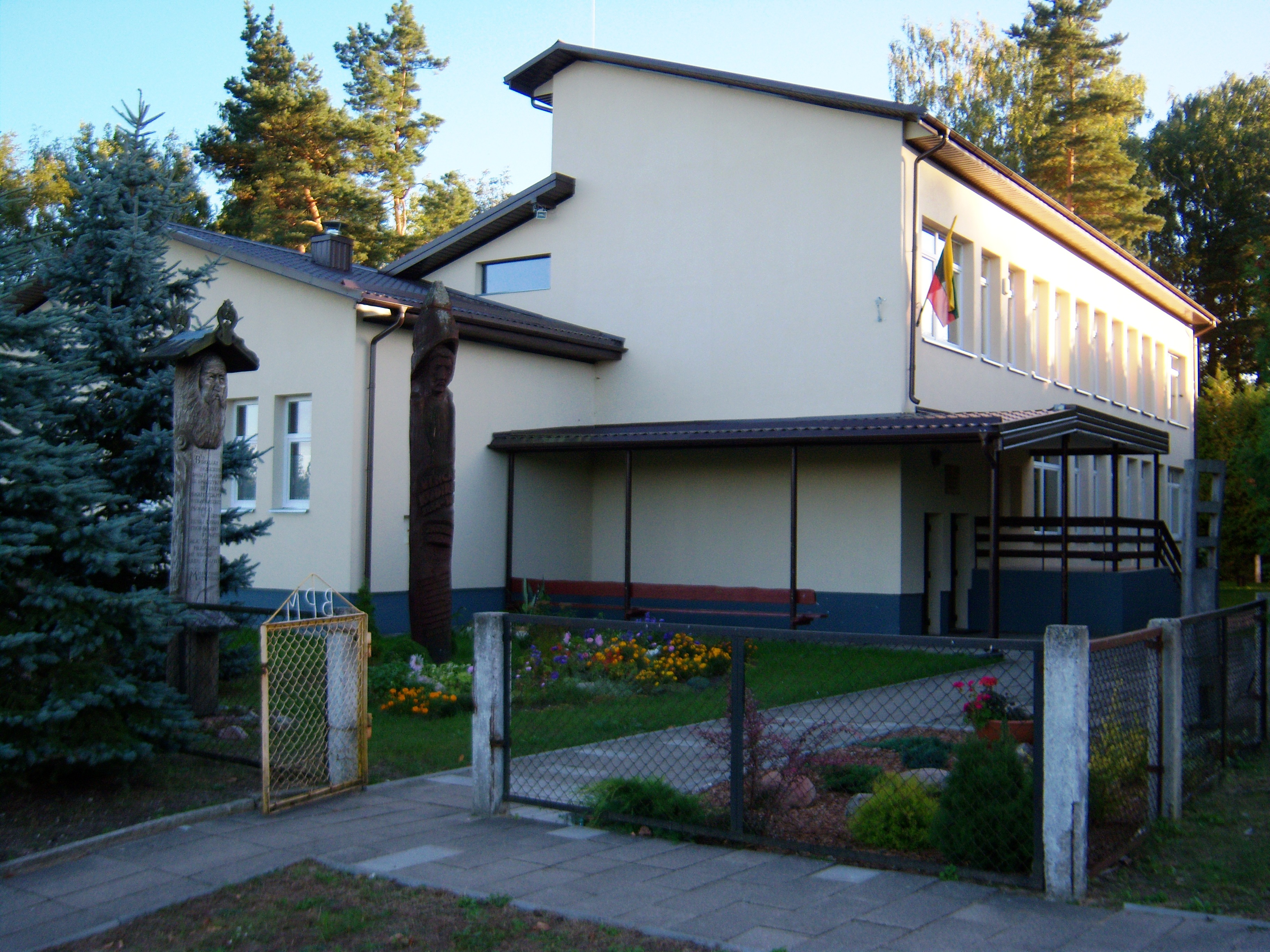 Basic school in Bagotoji, Kazlų Rūda municipality, Lithuania